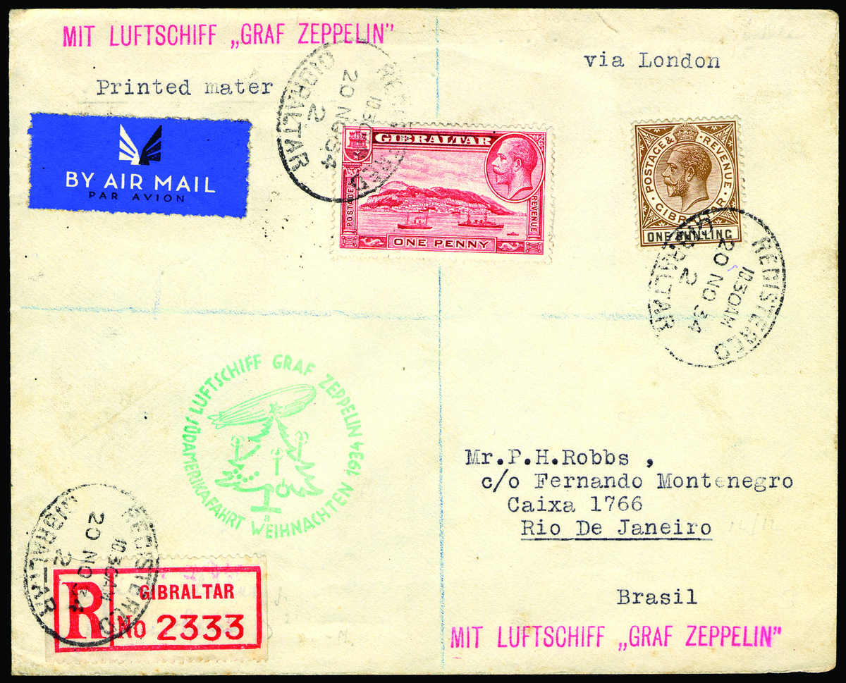 1934 (Dec 8-19), 12th South America Zeppelin flight (Christmas flight). A registered printed matter cover from Gibraltar via Berlin to Rio de Janeiro, Sieger # 286. Sold at Harmers Auction SA in 2012 for 260 CHF plus buyer's premium.